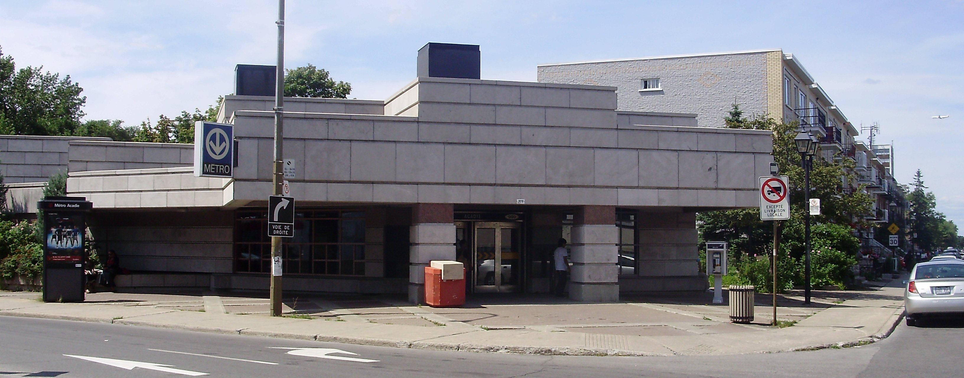 The Société de transport de Montréal's Acadie metro station in Montreal, Quebec, Canada.